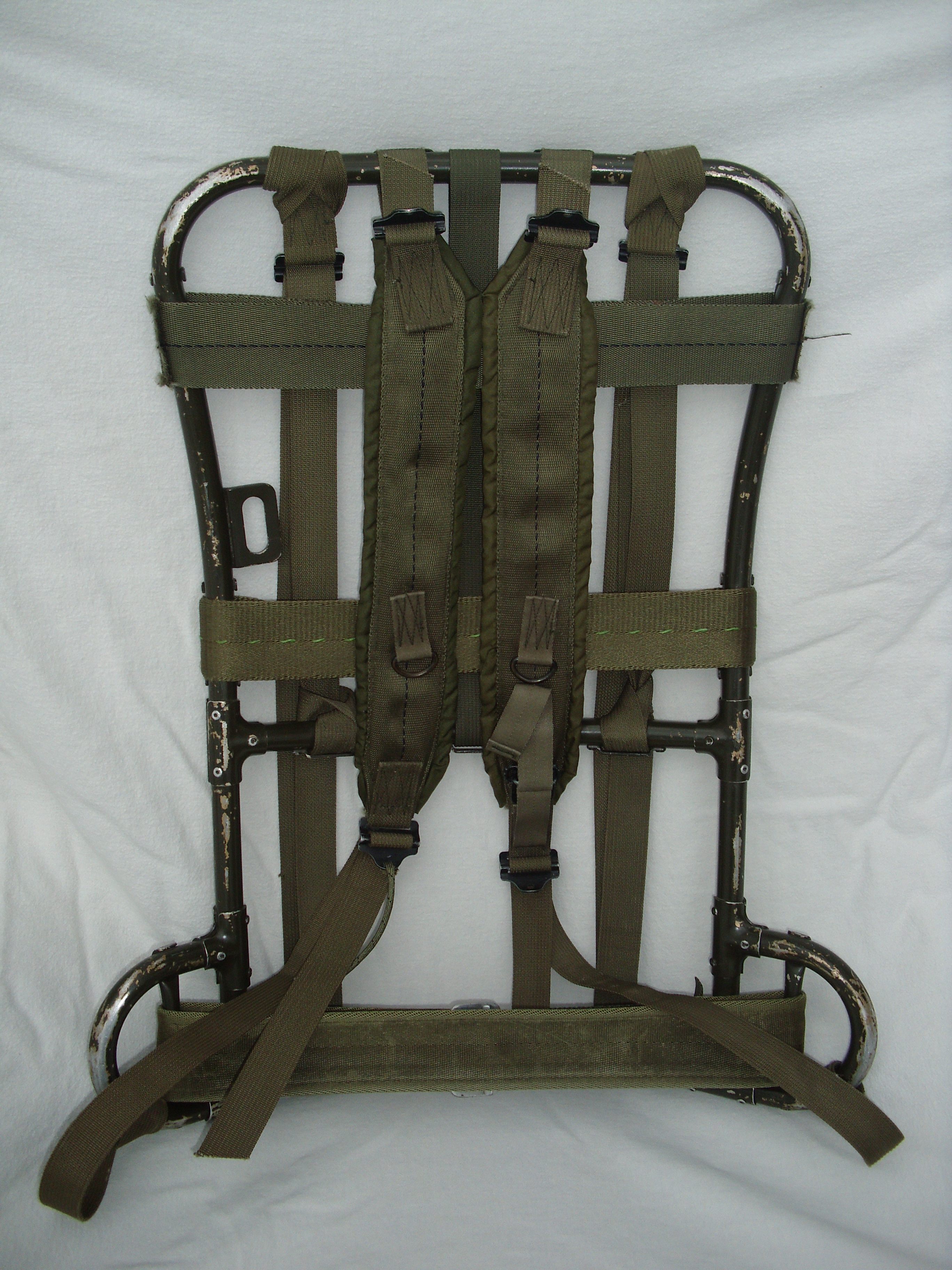 Rear (pack side) view of the Lightweight Rucksack Frame (riveted version).